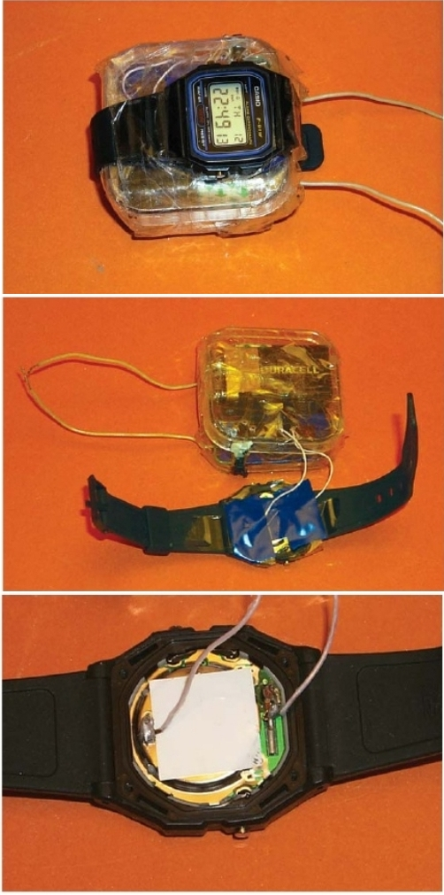 al Qaida watch timer Original caption: “ Al Qa'ida Casio Watch Timer Timers built using a Casio watch were first seen in early 2000. The device detects the watch alarm output to trigger the device. Several varieties of alarm detector circuitry have been seen (Sheets 03340 & 84071) with this being the simplest. Time delays up to 23:59 can be achieved. *Time Delay: User programmable up to 23 hours, 59 minutes in one minute increments. *Power Source: Standard 9-Volt batteries, connected through a slide switch on the side of the case, is used to power the detector circuit and detonator. The watch operates on its internal battery. *Anti-Tamper Features: None *Watch Type: This device used a Casio F-91W, but other digital alarm watches could be utilized. *Size: The plastic case containing the battery and detector components measures 57 mm square x 16 mm thick (2.25" square x 0.63" thick). ”